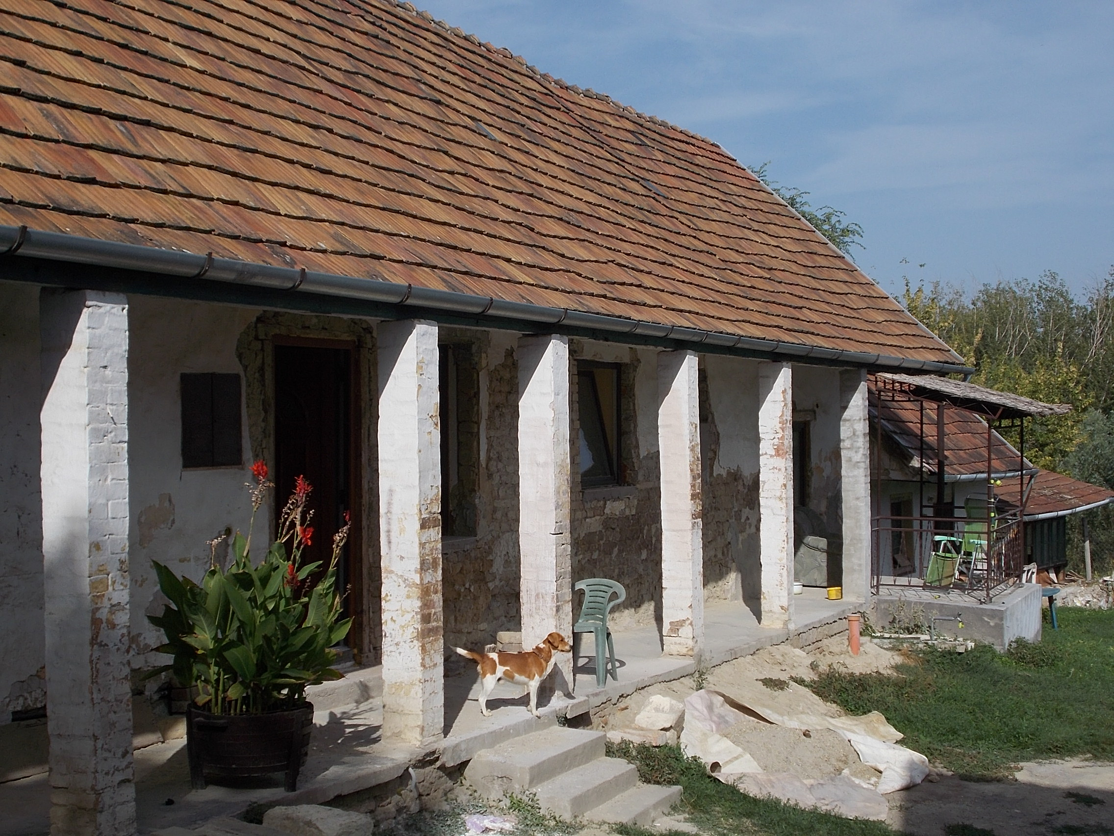 Dwelling building. Listed ID 17383. - 13 Molnár Street, Ófalu, Érd, Pest County, Hungary.